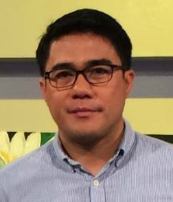 Aljo Bendijo as one of the hosts of Good Morning Boss shown simulcast on PTV 4